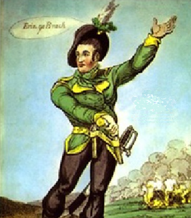 Caricature of an Irish nationalist c1800, claimed by Jane Hayter Hames to depict Roger OConnor